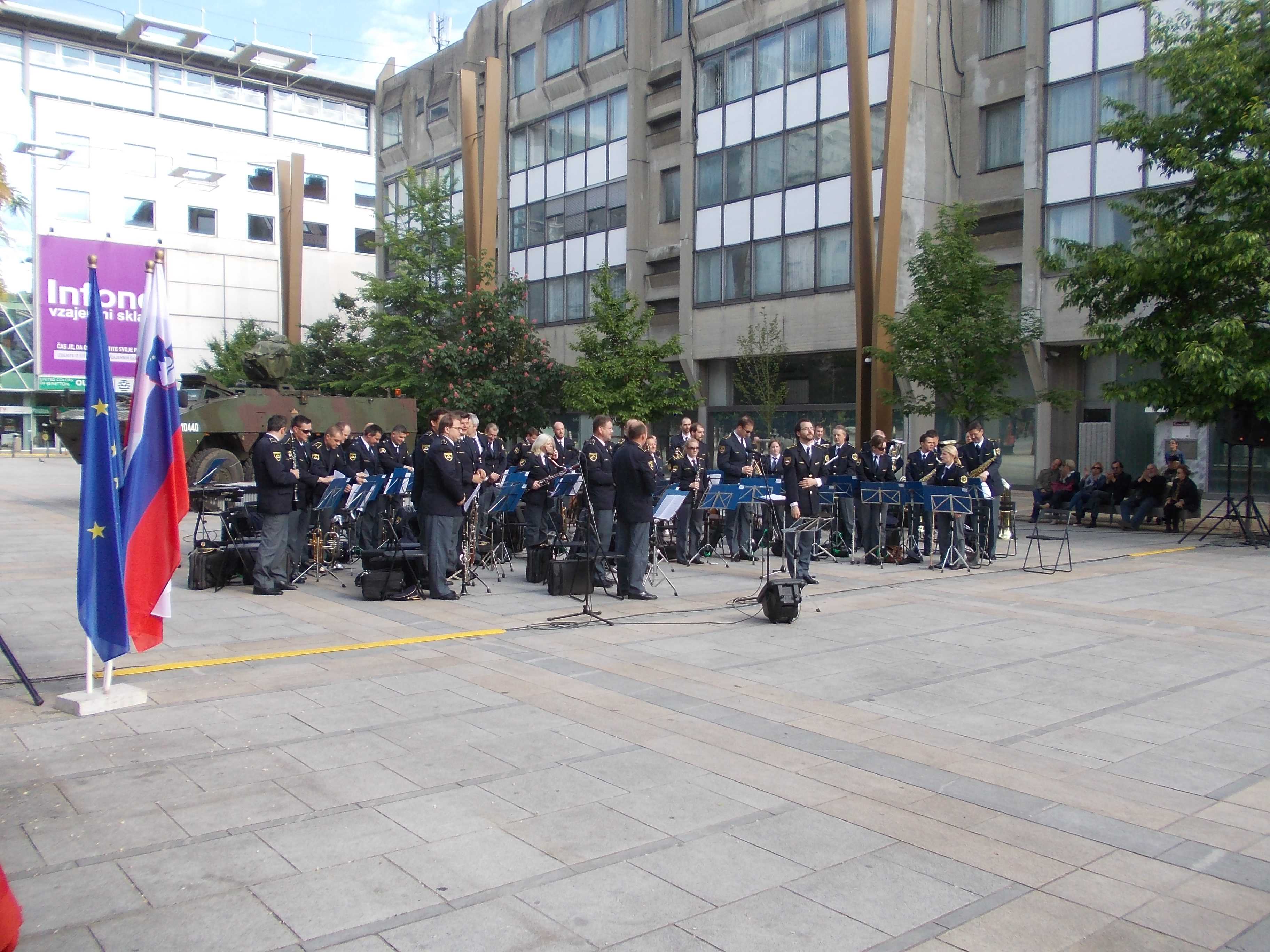 Police Orchestra (Slovenia) on Trg Leona Štuklja, Maribor, on the occasion of 25. anniversary of Pekre events.